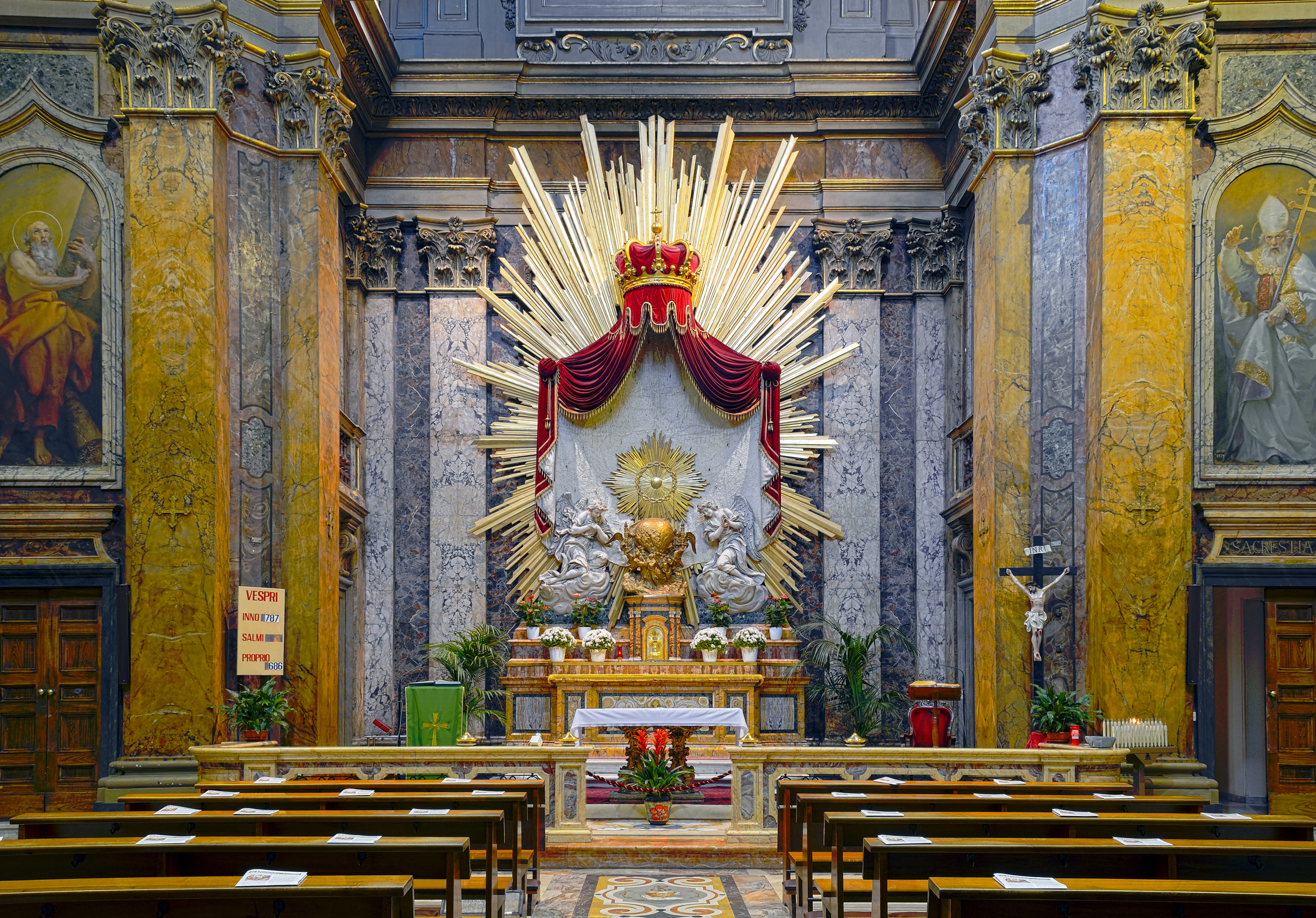 Santi Andrea e Claudio dei Borgognoni (Rome) - Interior